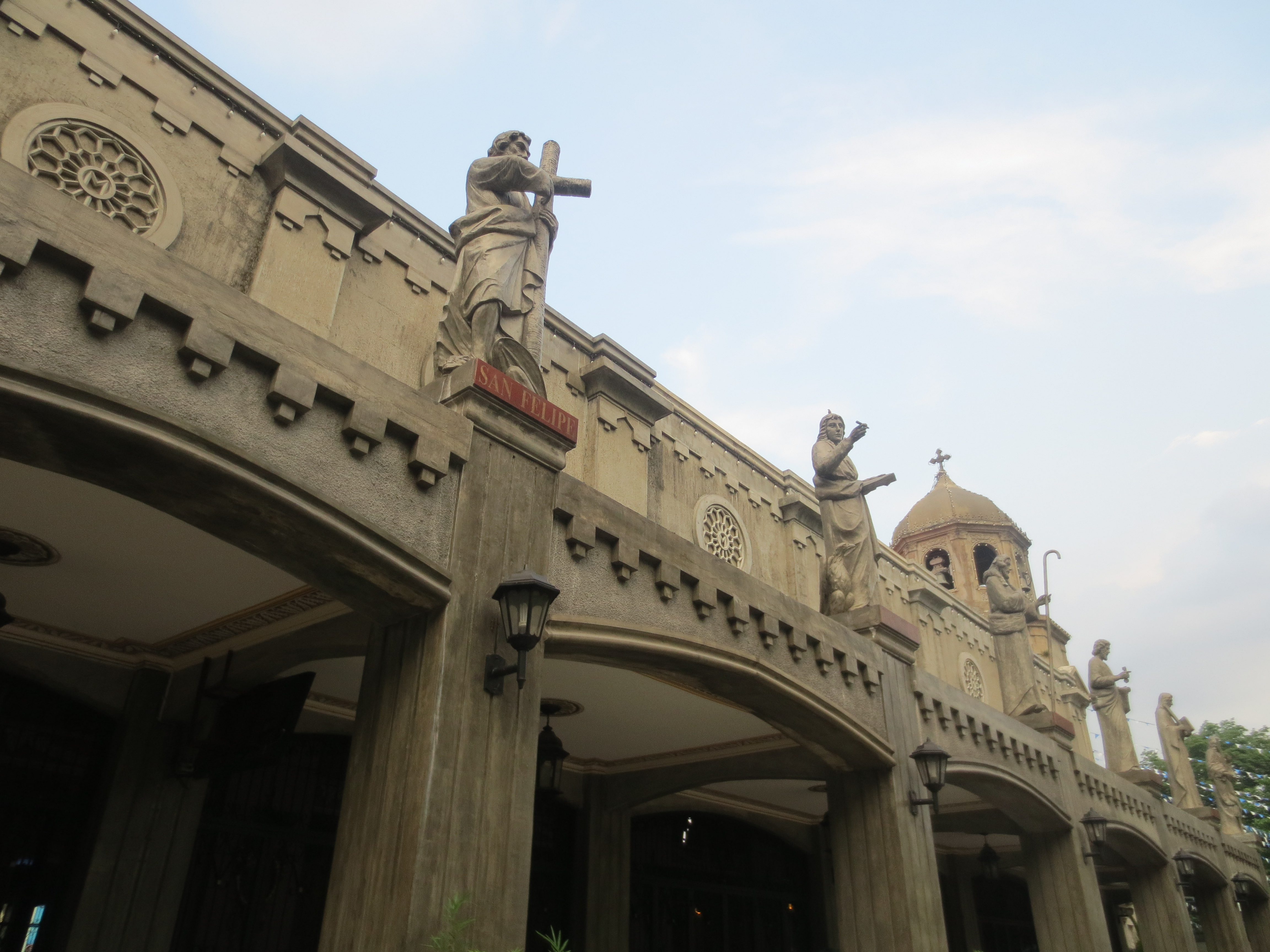 Statues of the disciples are erected at the top of the pillars around the side of the church.